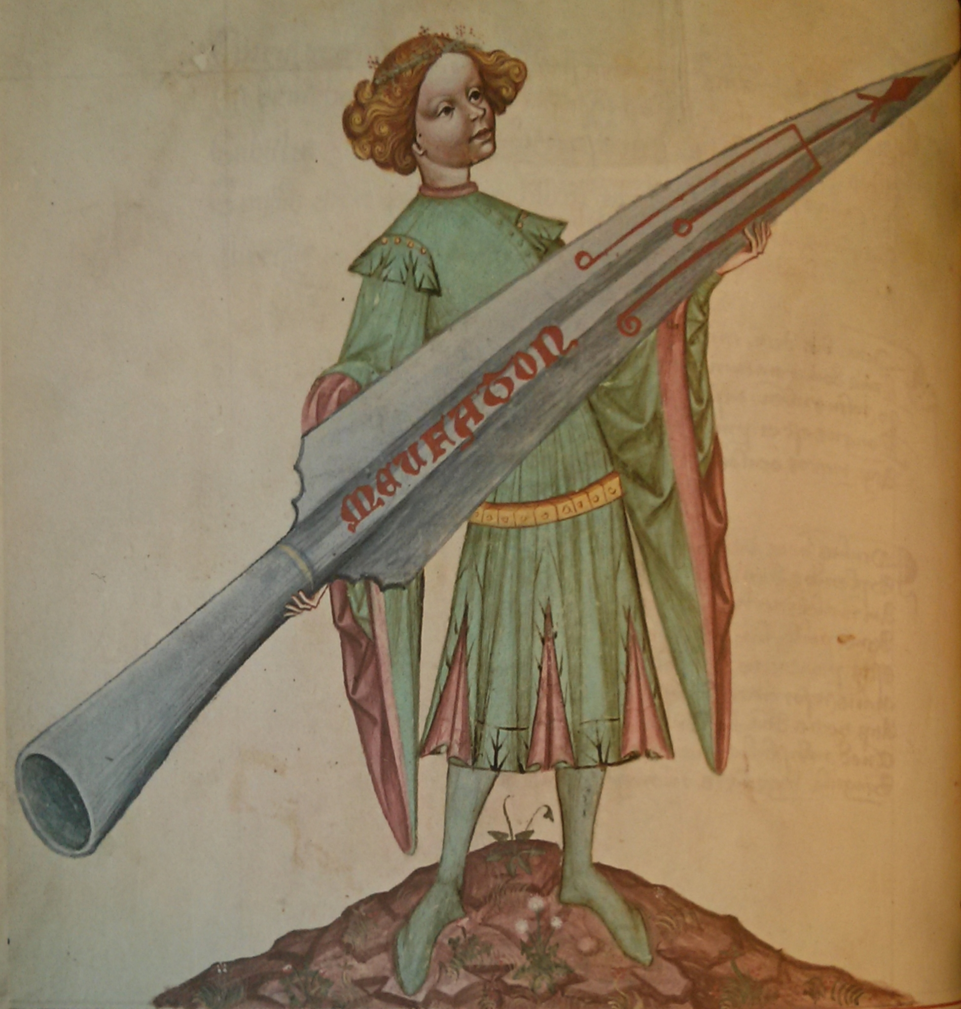 According to Quarg (1967): A squire is holding the victory bringing iron head of Alexander the Great's spear called "Meufaton". The spear was called "Almerio", that he threw to symbolicaly illustrate the occupation of asia to his soldiers before he oversteped the symbolical border. According to medieval symbolic the size of the spear's head shows the increased strength that the brownish painting on the head will transfer to soldiers, when it was painted into the hand of every soldier. The picture in Kyeser's Bellifortis shows the psychological influence of symbolic icons to the fighting strength of soldiers, when transferred by picture. (Theory of Quarg 1967)